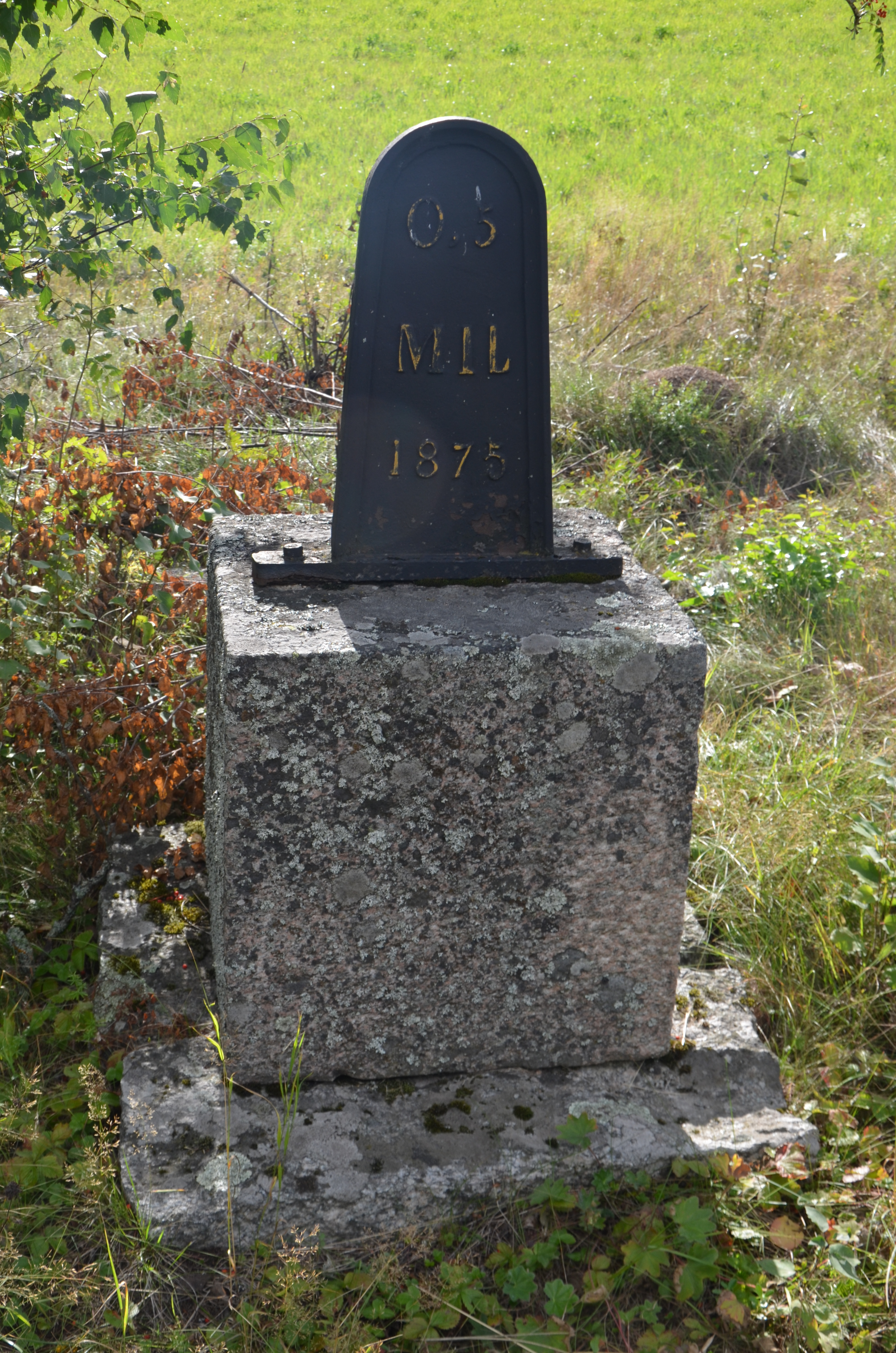 Half mile marker a short way south of Ombenning on the road between Västanfors and Ängelsberg